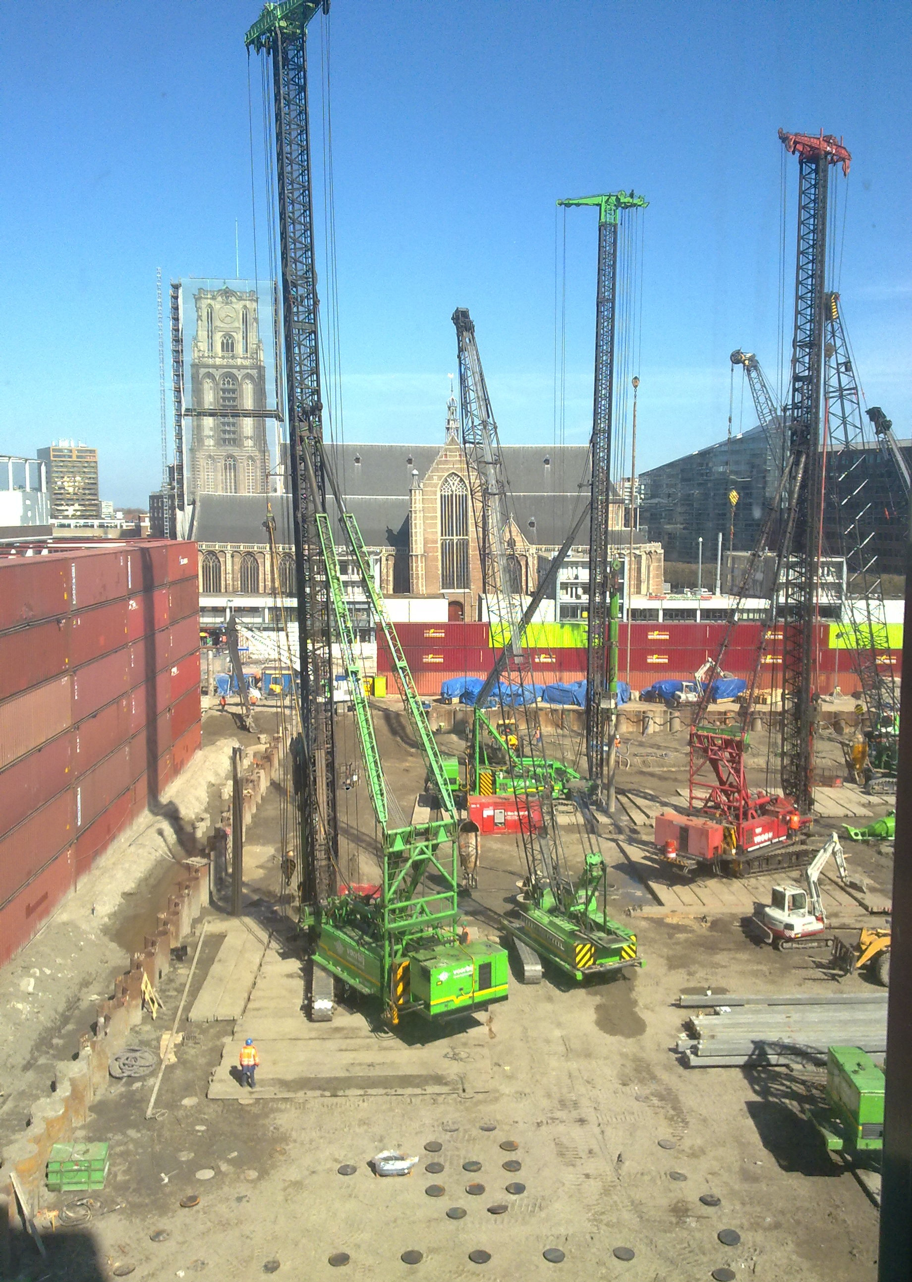 The Markthal in Rotterdam under construction. In view of the Laurenskerk